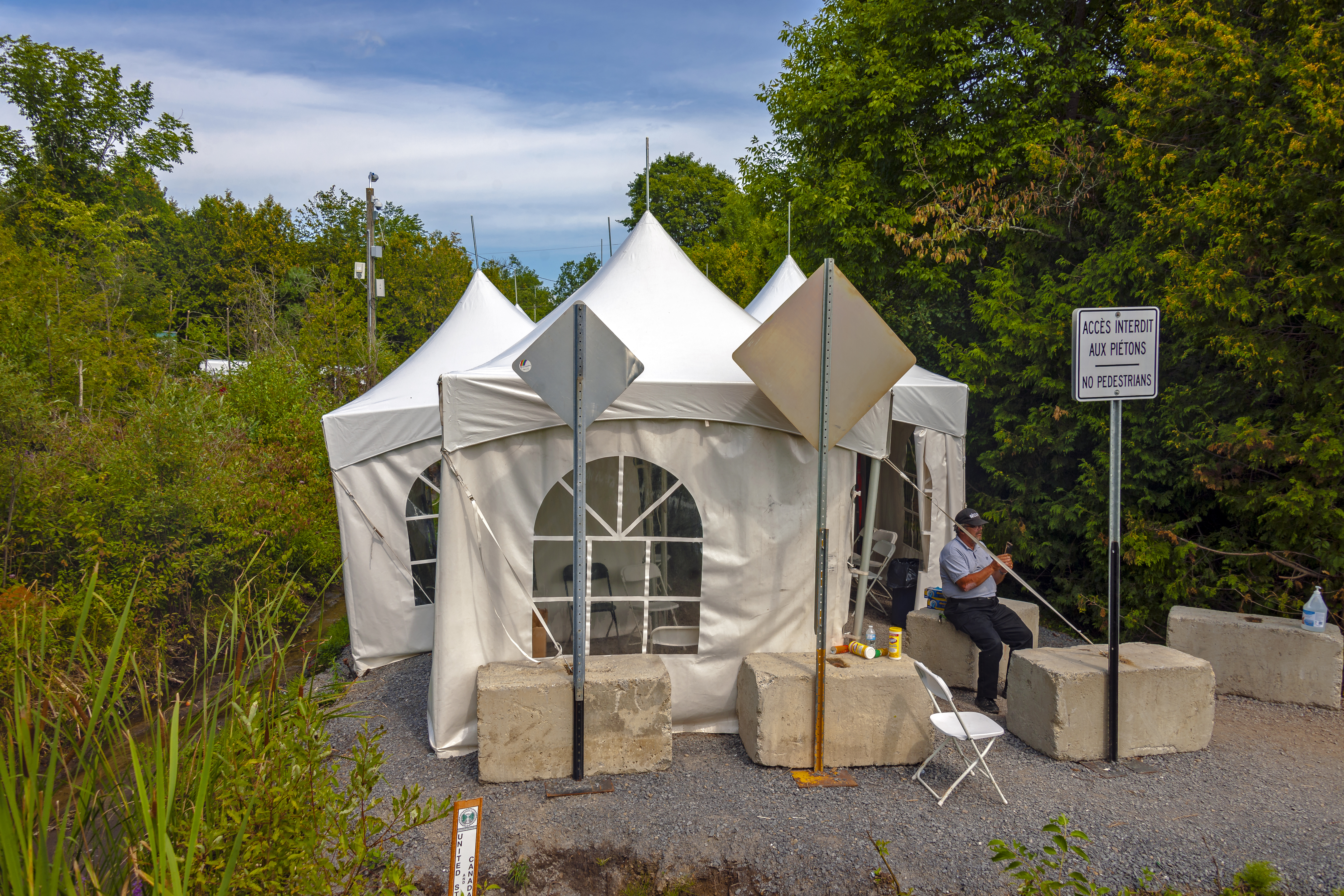 Tents set up to process asylum seekers from the U.S. entering Canada illegally from Roxham Road in Champlain, NY, photographed from U.S. side of the border vista US–Canadian border markers at the end of Roxham Road between Champlain, NY, and :w:Lacolle , QC. An older stone one (left) is supplemented by a modern metal strip.